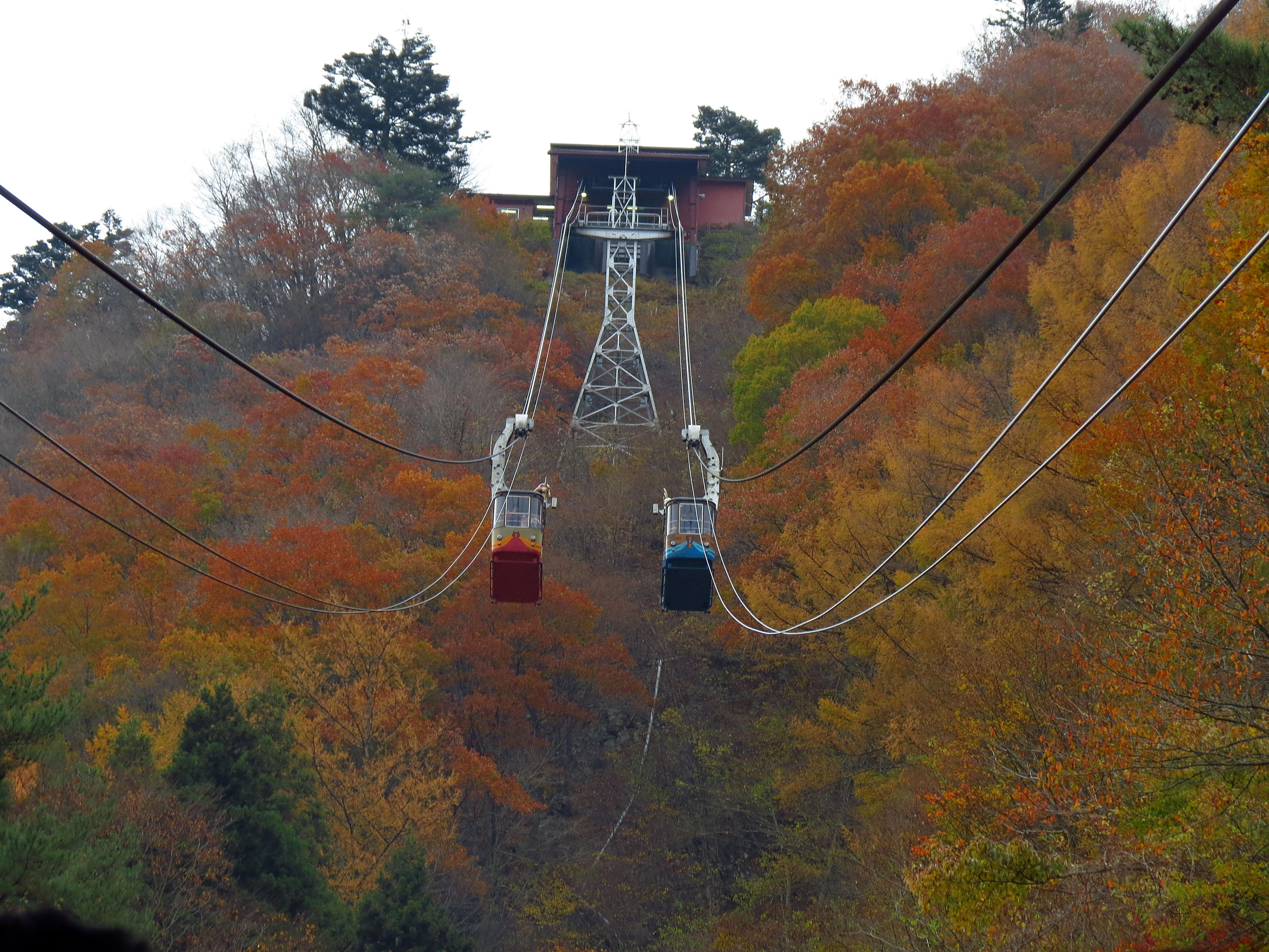 Mount Tenjo